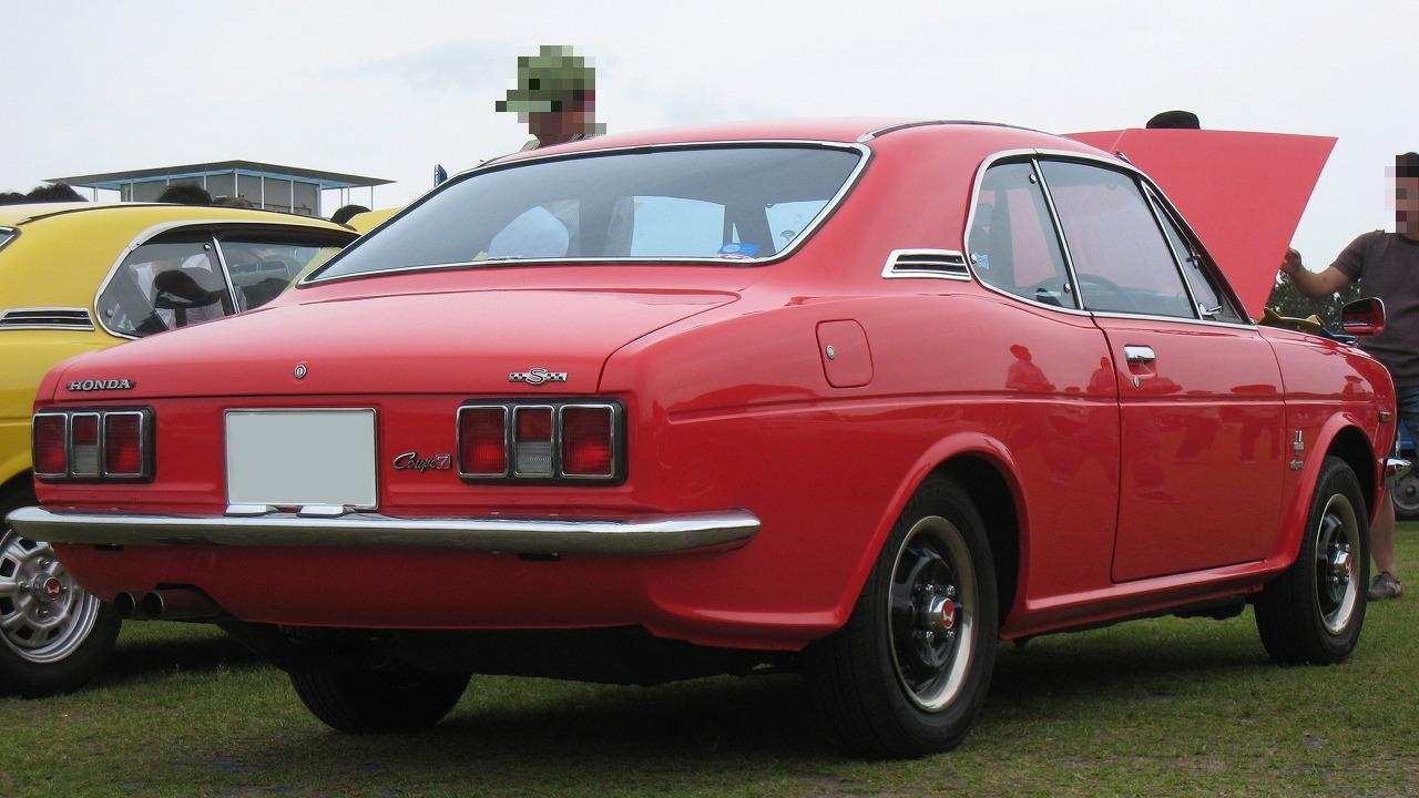 honda1300coupe7s rear